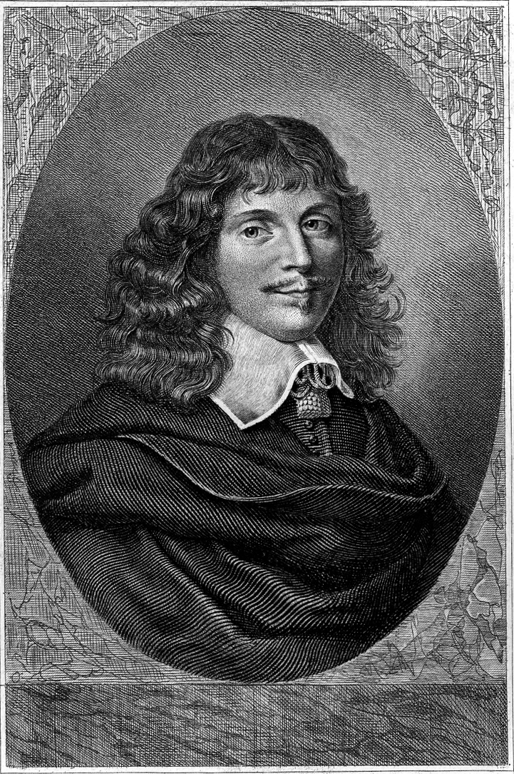 Jean François Sarrazin (1611?-1654), French author